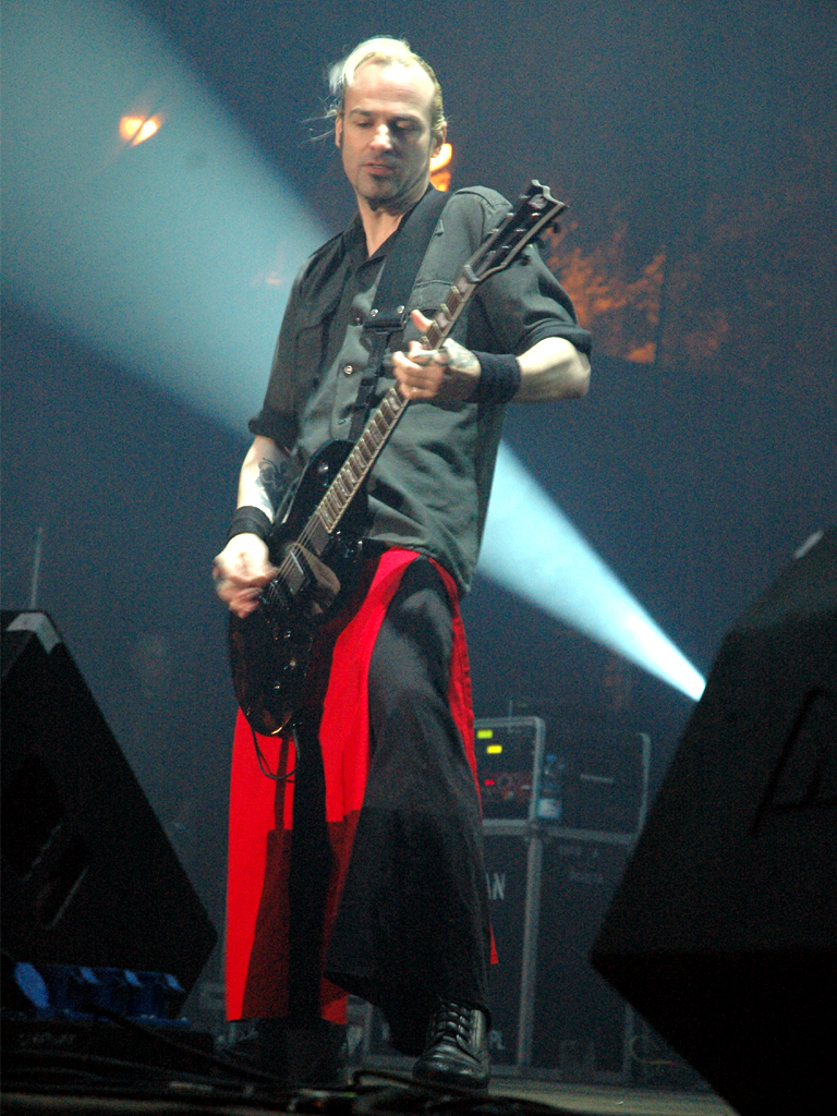 Vorph from Samael on Hunter Fest 2007